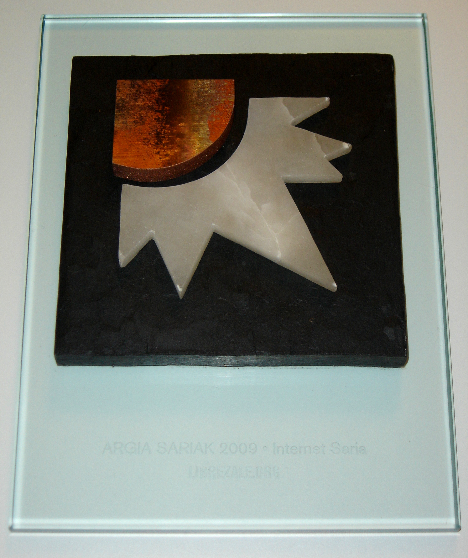 2009's Internet ARGIA prize received by the team